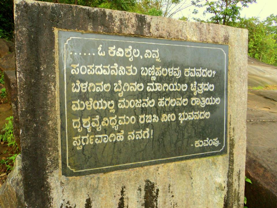 ಕವಿಶೈಲ